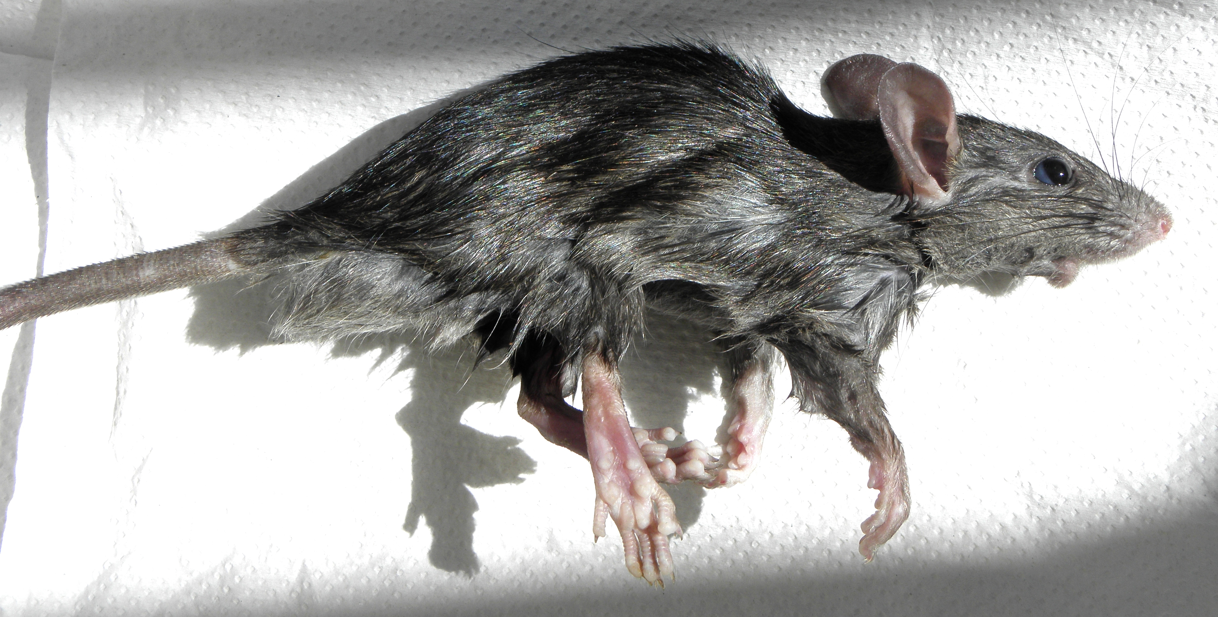 Side view of Black Rat (Rattus rattus).